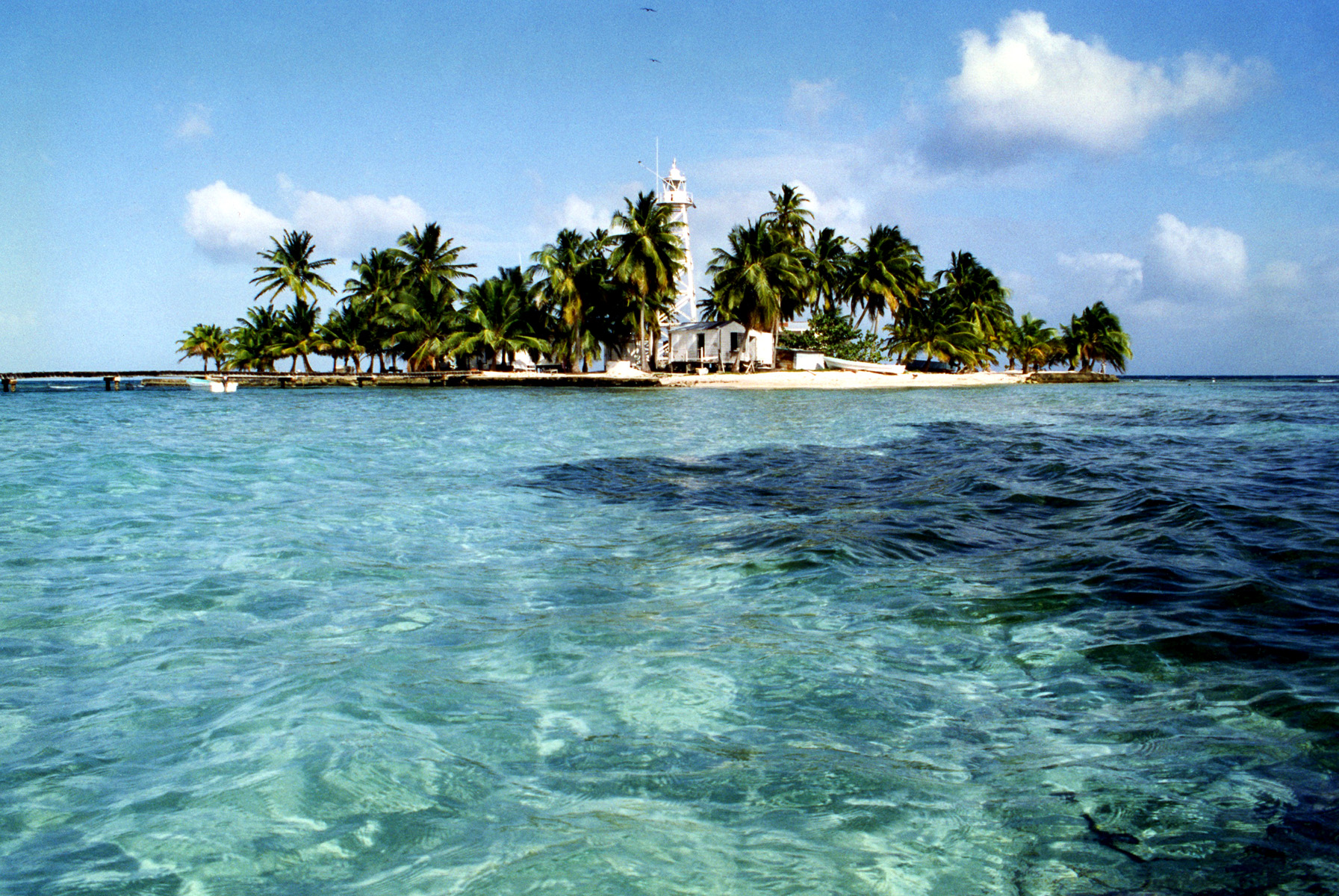 Our first nights destination was this small dot of an islet less than an acre in size but with several buildings, a lighthouse, about fifty palms, and an amazing shallow reef.